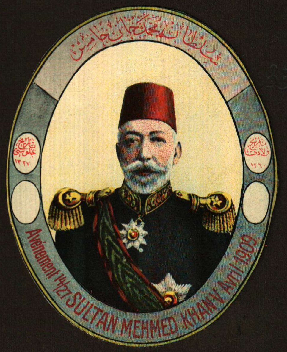 Mehmed V